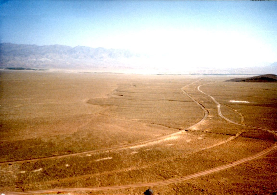 Muslimbagh